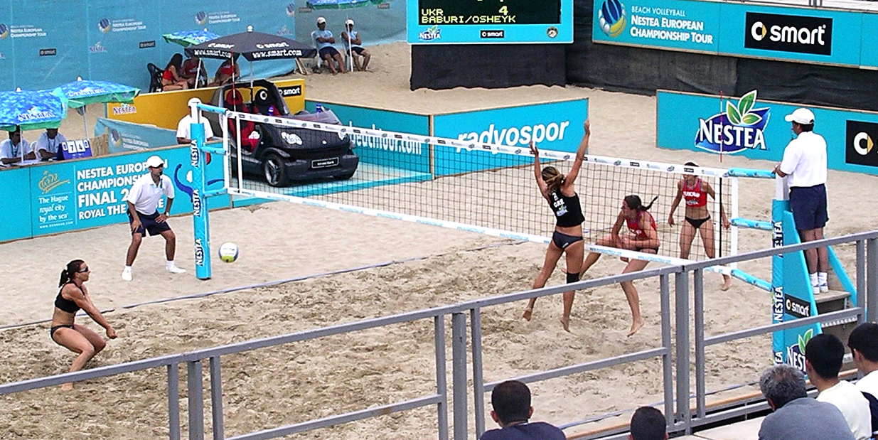 Womens Beach volleyball played in Alanya, Turkey during 2006 Nestea European Championships between Greece and Ukraine.